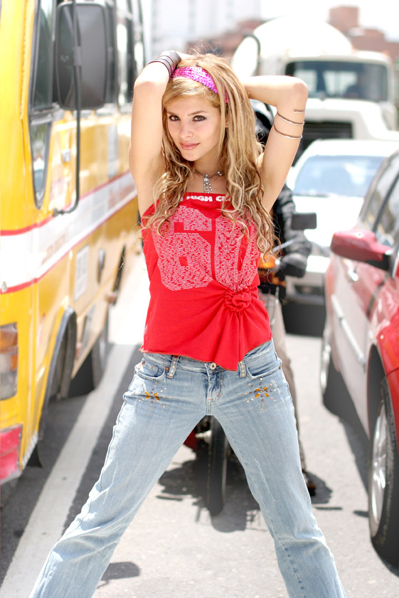 Colombian artist Anasol